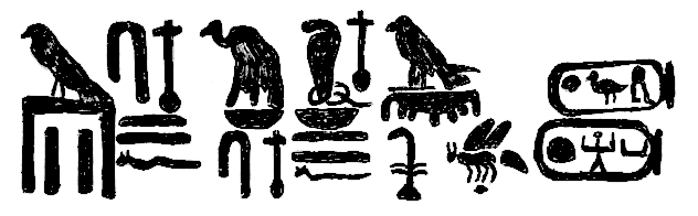 Drawing of a rock inscription with the full royal titulary of the Nubian ruler Qakare Ini, from Taifa (Lower Nubia), end 11th-beginning 12th Dynasty. Drawing based on another one by Gunther Roeder, Les Temples immerges de la Nubie: Debod bis bab Kalabsche, tome 2 (1911), pl. 121.